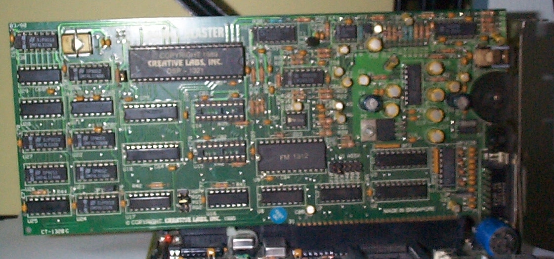 An old 8 bit Sound Blaster card seated in an 8 bit ISA slot. I took this picture back in 2001, though I no longer have this card, and so am not able to take a better version.